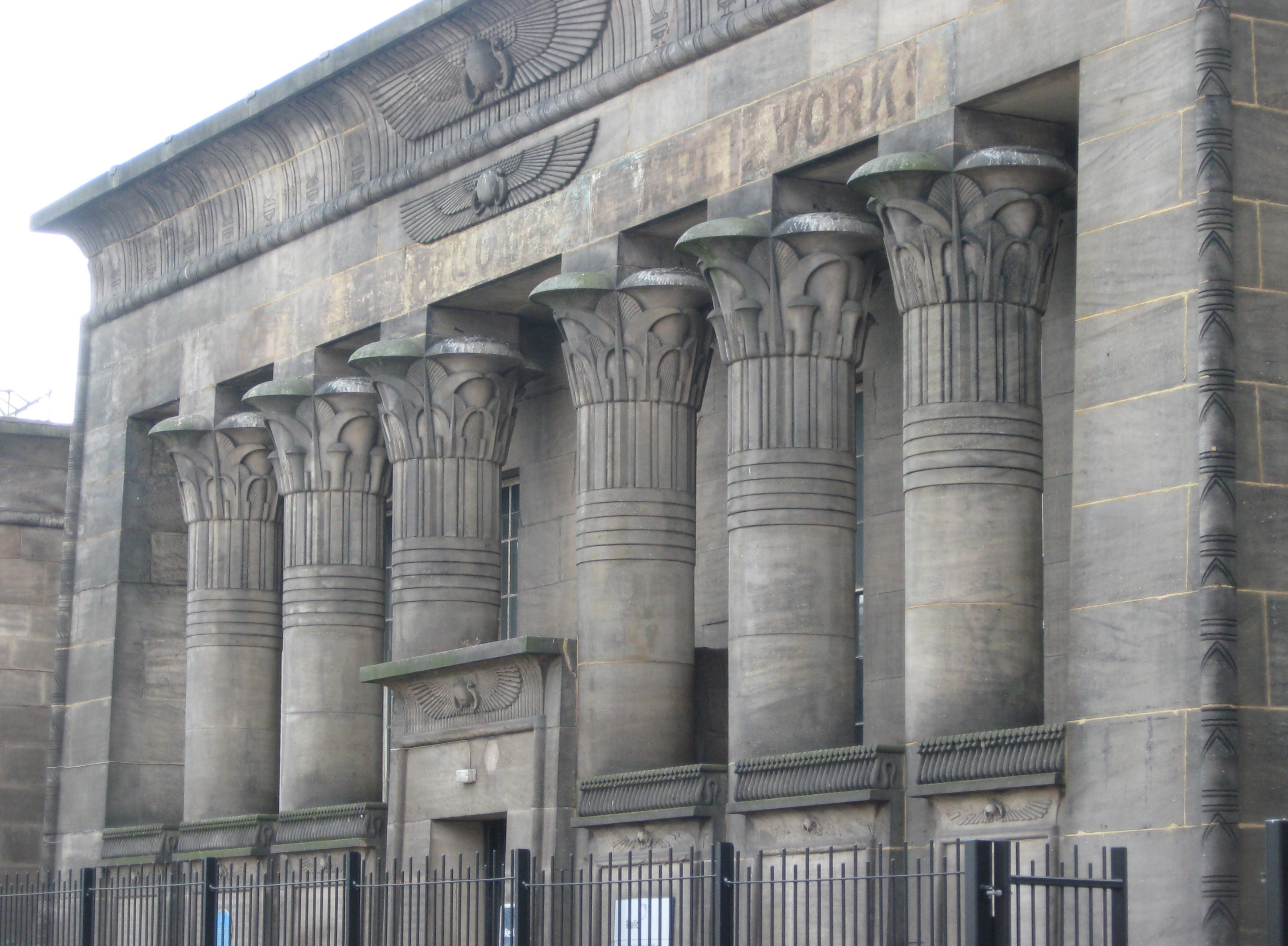 The Temple Works former flax mill located in Holbeck, Leeds, England.